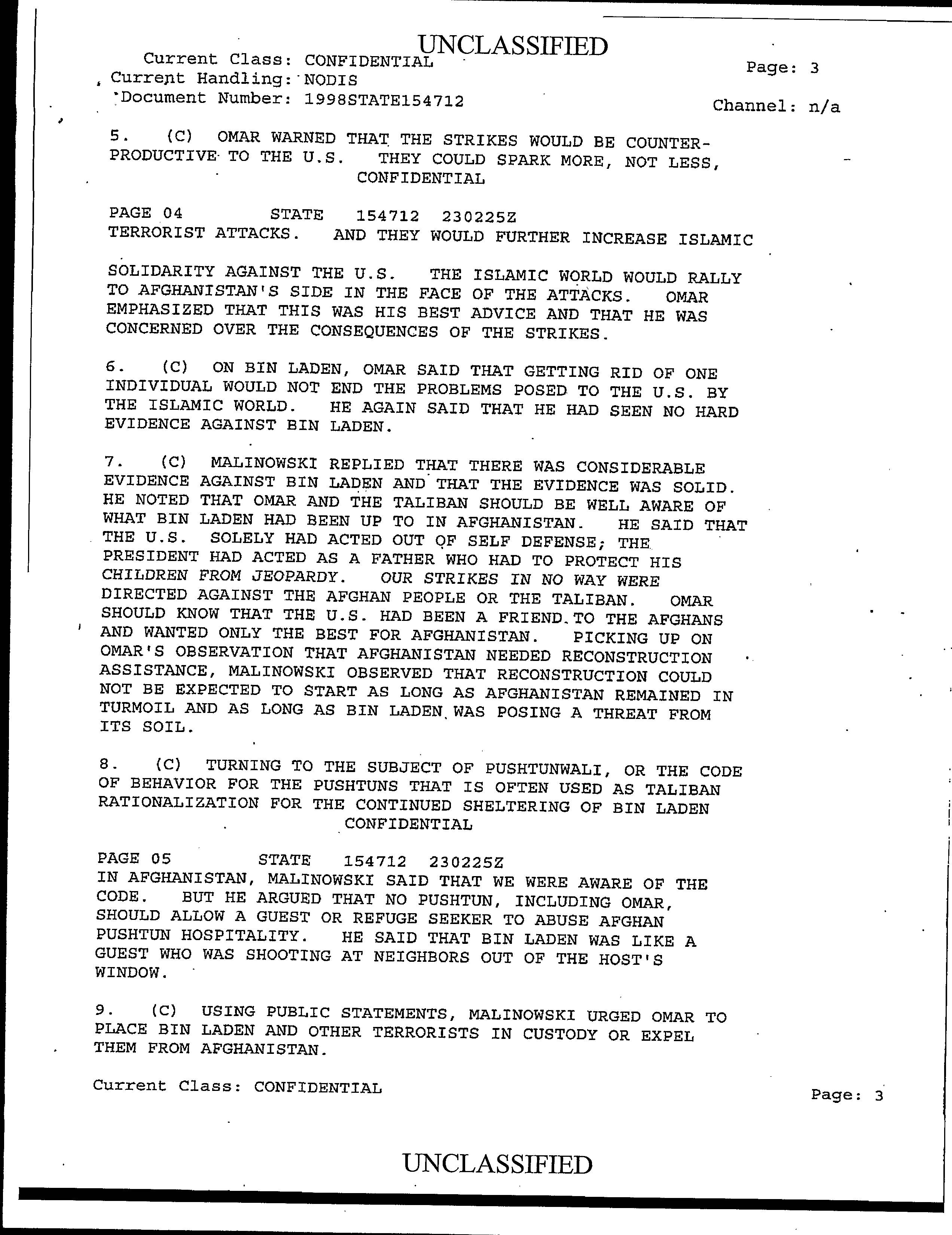 Page 3 of a U.S. State Department cable describing an August 23, 1998, conversation between an American official and Taliban leader Mullah Omar.